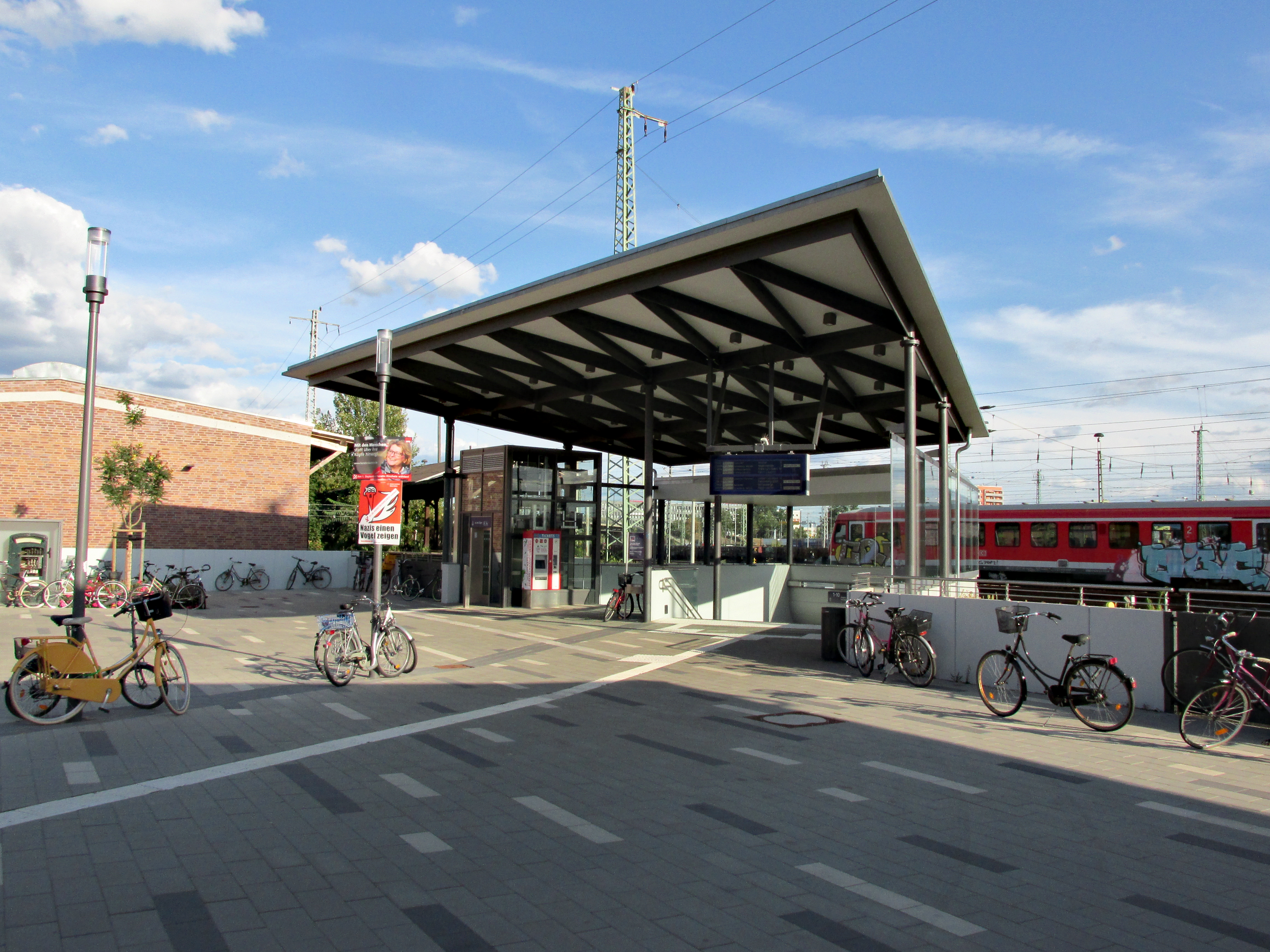 Entrance to the new passenger tunnel of Bahnhof Cottbus at Güterzufuhrstraße.